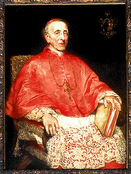 Portrait of Philipp Krementz (1819-1899)